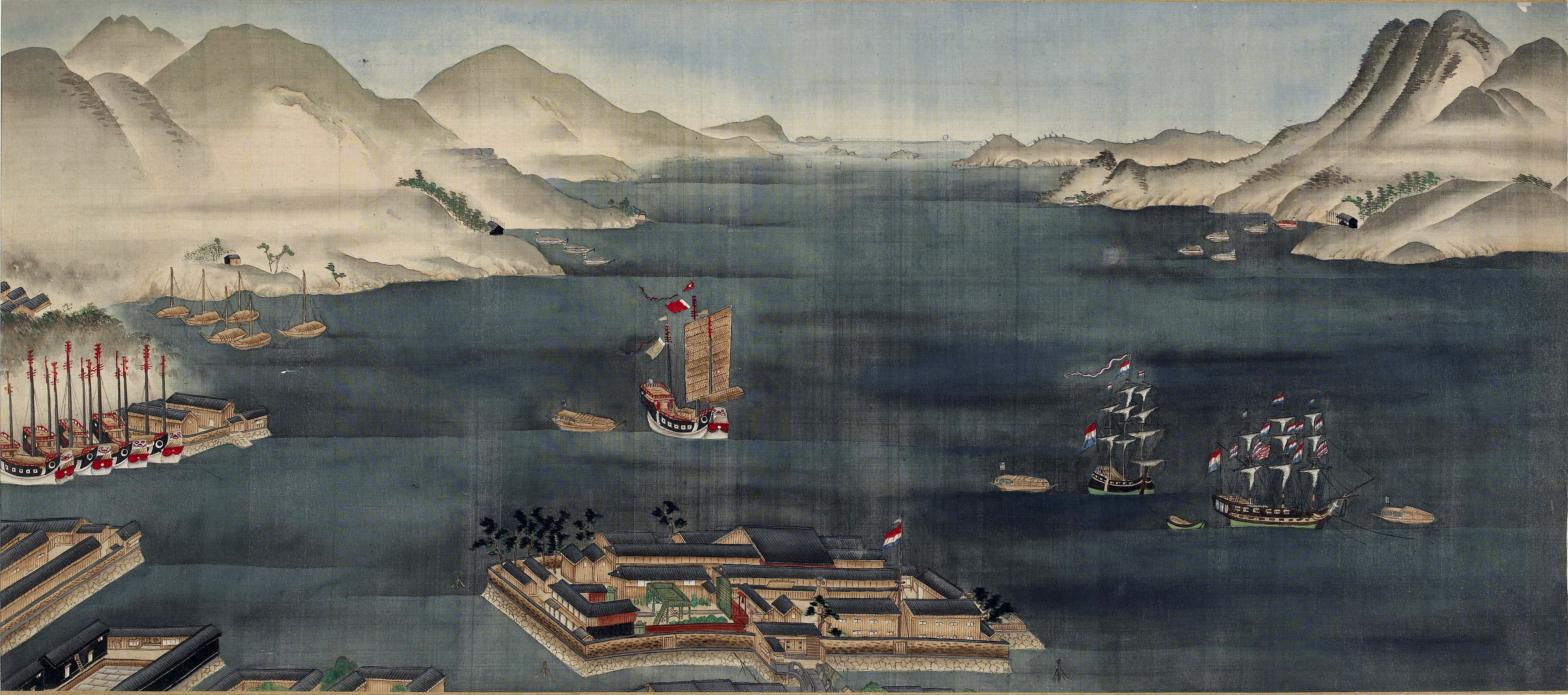 Painting of Japanese and Dutch trade on Dejima (in Nagasaki). The view includes two Dutch ships and numerous Chinese trading junks.